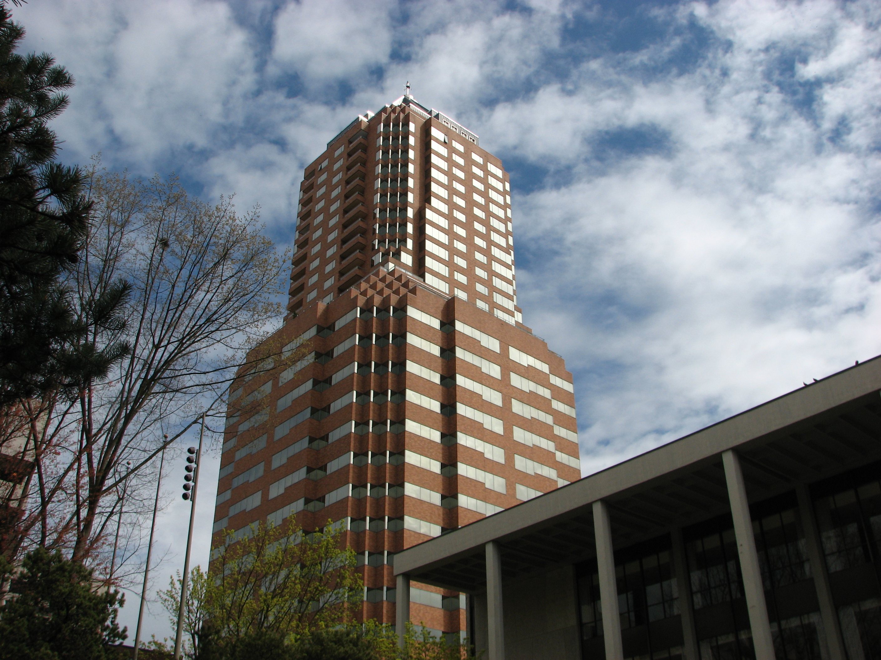 The KOIN tower on a clear spring day. Taken by Ulmanor with a Canon PowerShot S3 IS in April of 07. (metadata is incorrect due to improper settings on camera)